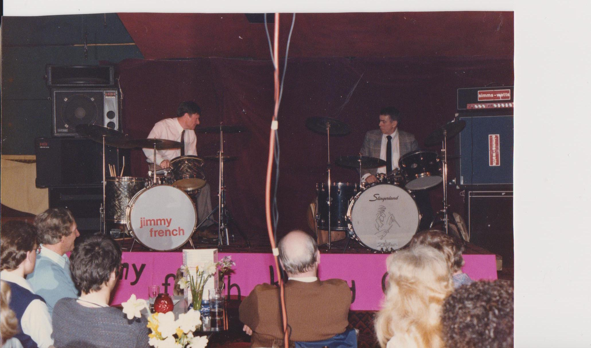 Personal photo of Kenny Clare and Jimmy French having a drum duel at the Penmare Hotel in Hayle, Cornwall 16 April 1984